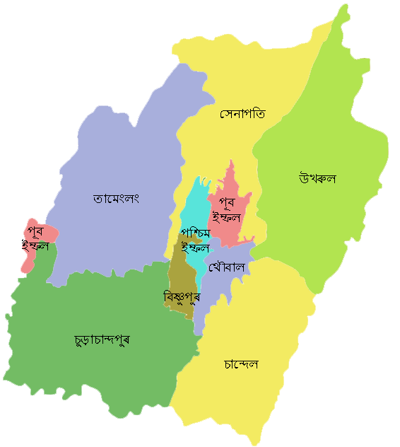 Map of Manipur districts labbled in Assamese language